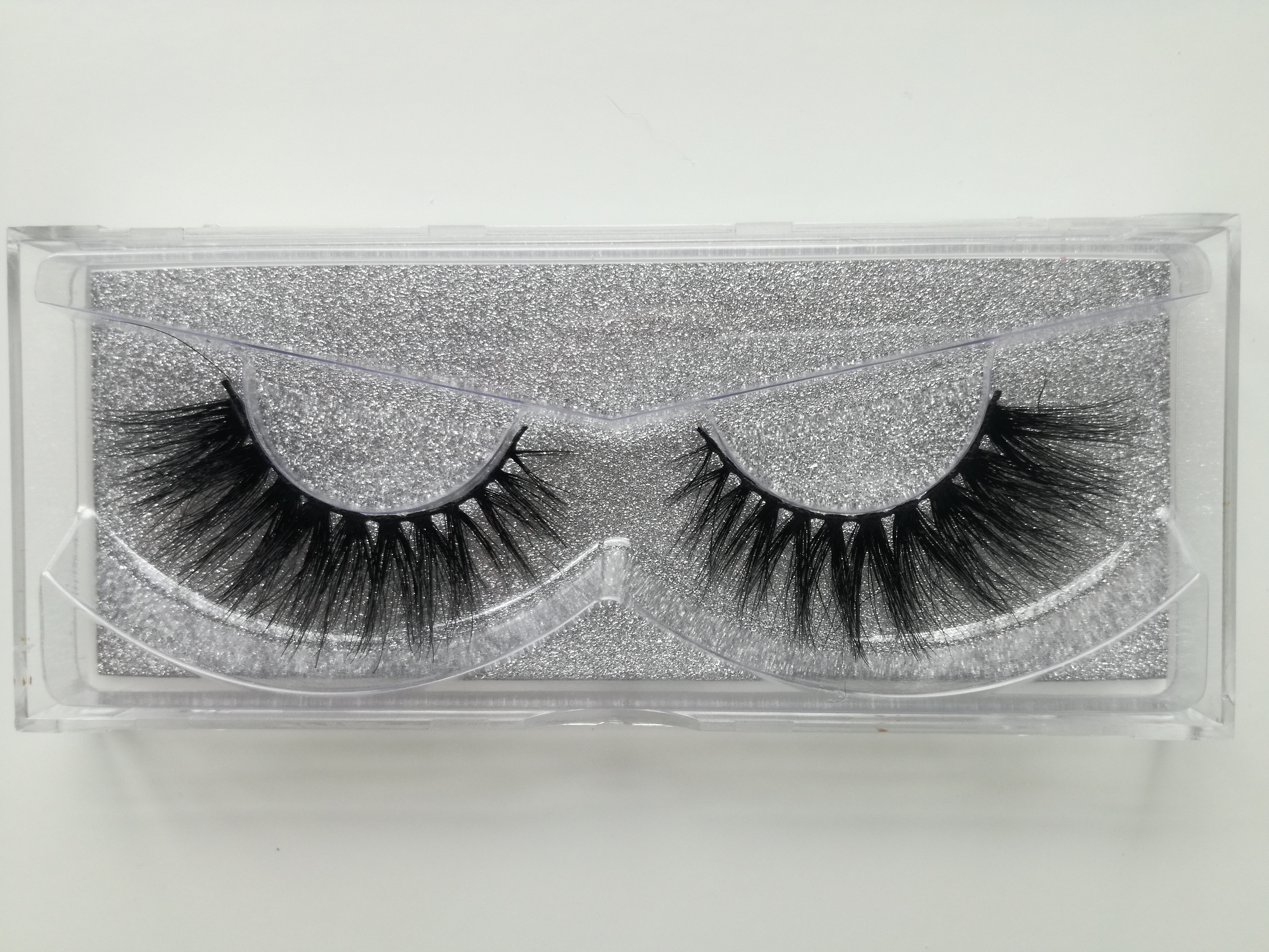 These kylie eyelashes from ariana mink lashes are one of their best sellers and for good reason. They are glamorous and will do wonders to finish your makeup look.